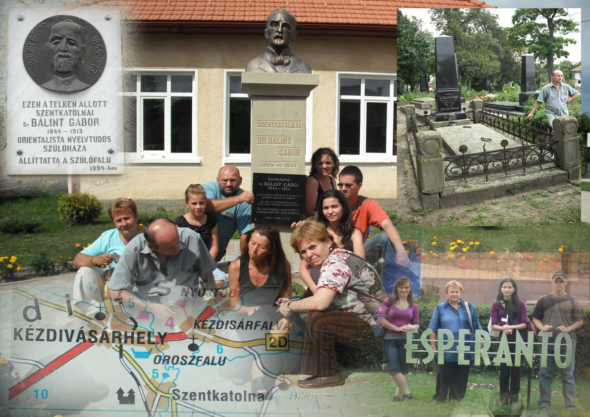 Gabor Balint memorial Szentkatolna, Transylvania